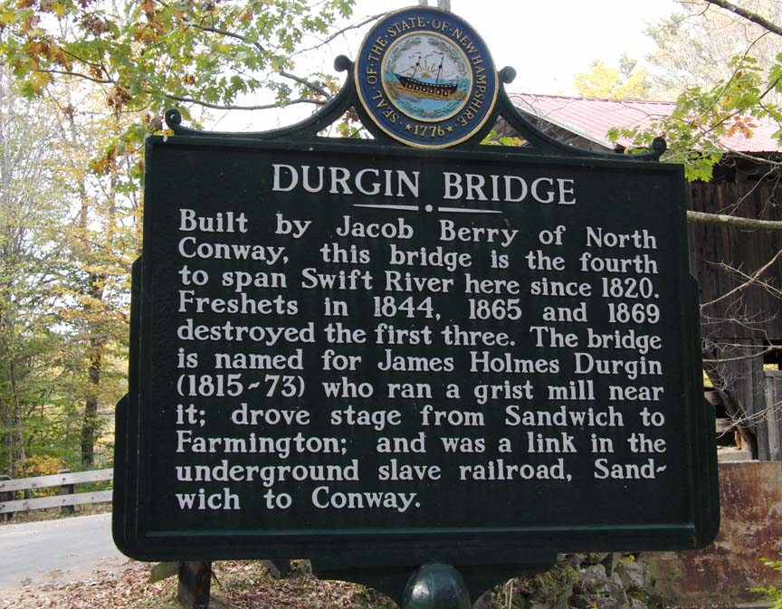 Historic Marker at Durgin Bridge near Sandwich NH, showing usage of the term "freshet".